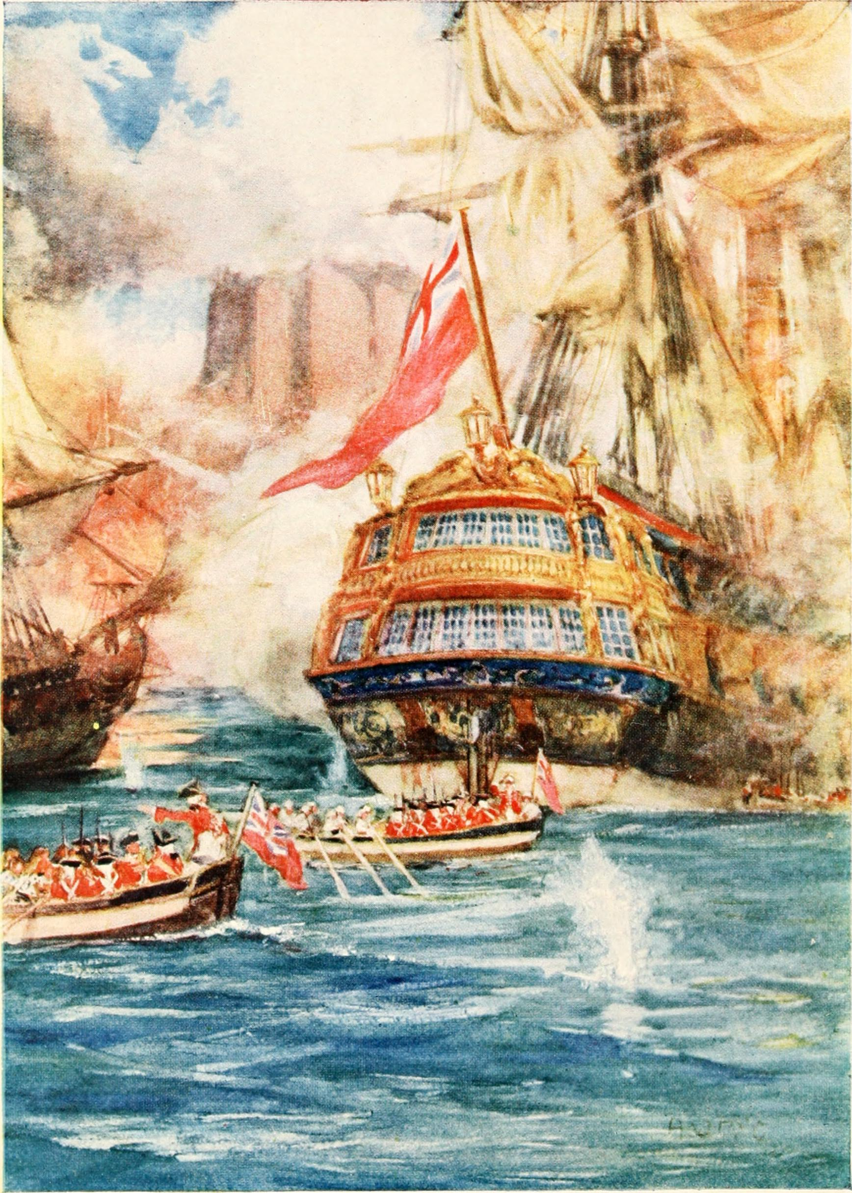 A British-Portuguese-Indian naval force attacks the fort of Geriah, 1756